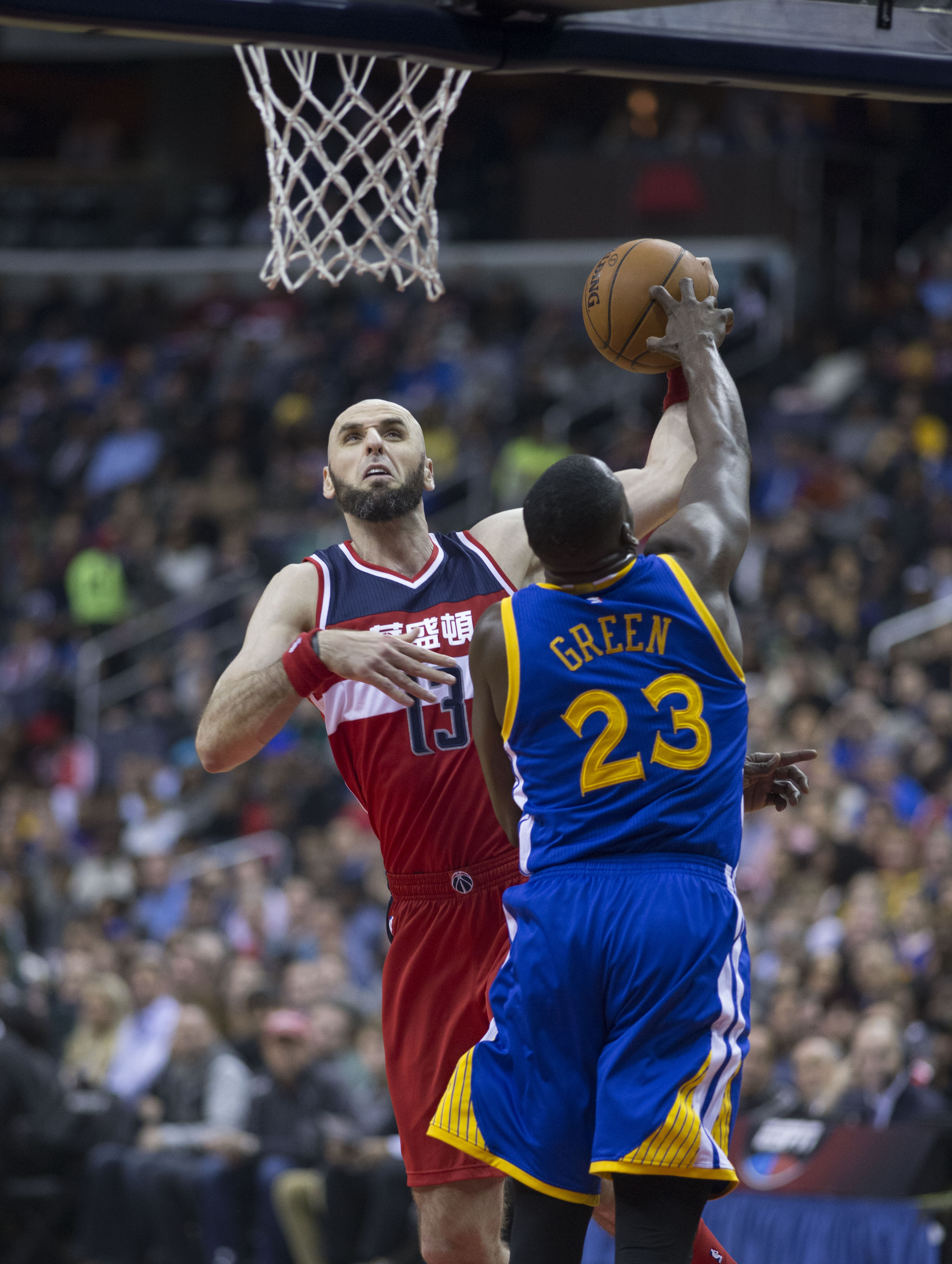 Marcin Gortat of Washington Wizards against Draymond Green of Golden State Warriors